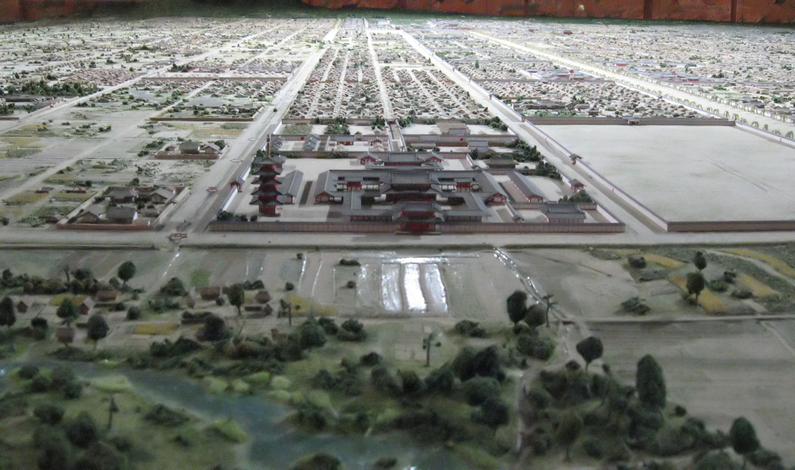 Miniature Model of Saiji, Heiankyo. 平安京の西寺 復元模型（平安京創世館）